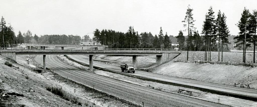 National road 4 under construction in Oulu, Finland, in 1965.